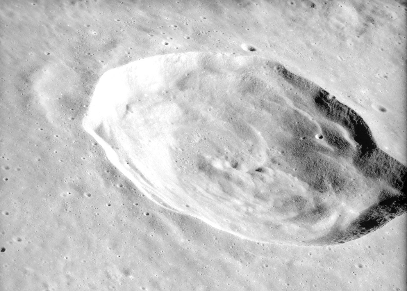 Oblique view of Horrocks crater, facing north, on the moon. Taken by Apollo 16 panoramic camera.